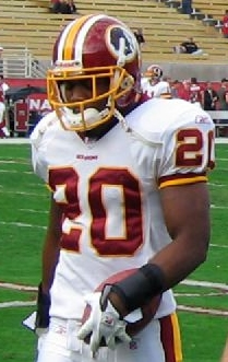 Defensive back Pierson Prioleau (en) of the Washington Redskins (formerly of the Virginia Tech Hokies)